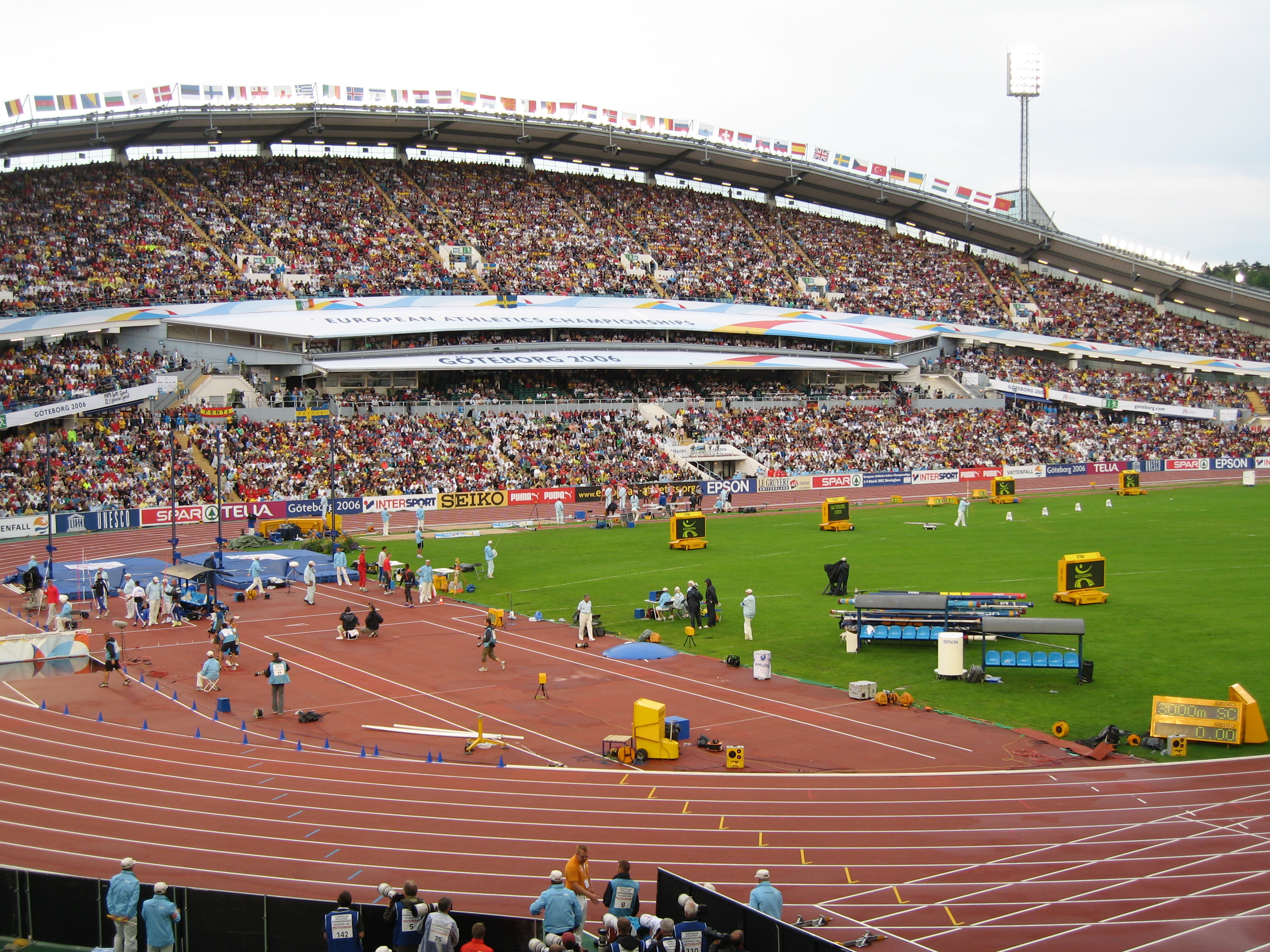 The audience at Ullevi waiting for the 3000 metre steeple chase final to start at the 2006 European Championships in Athletics.